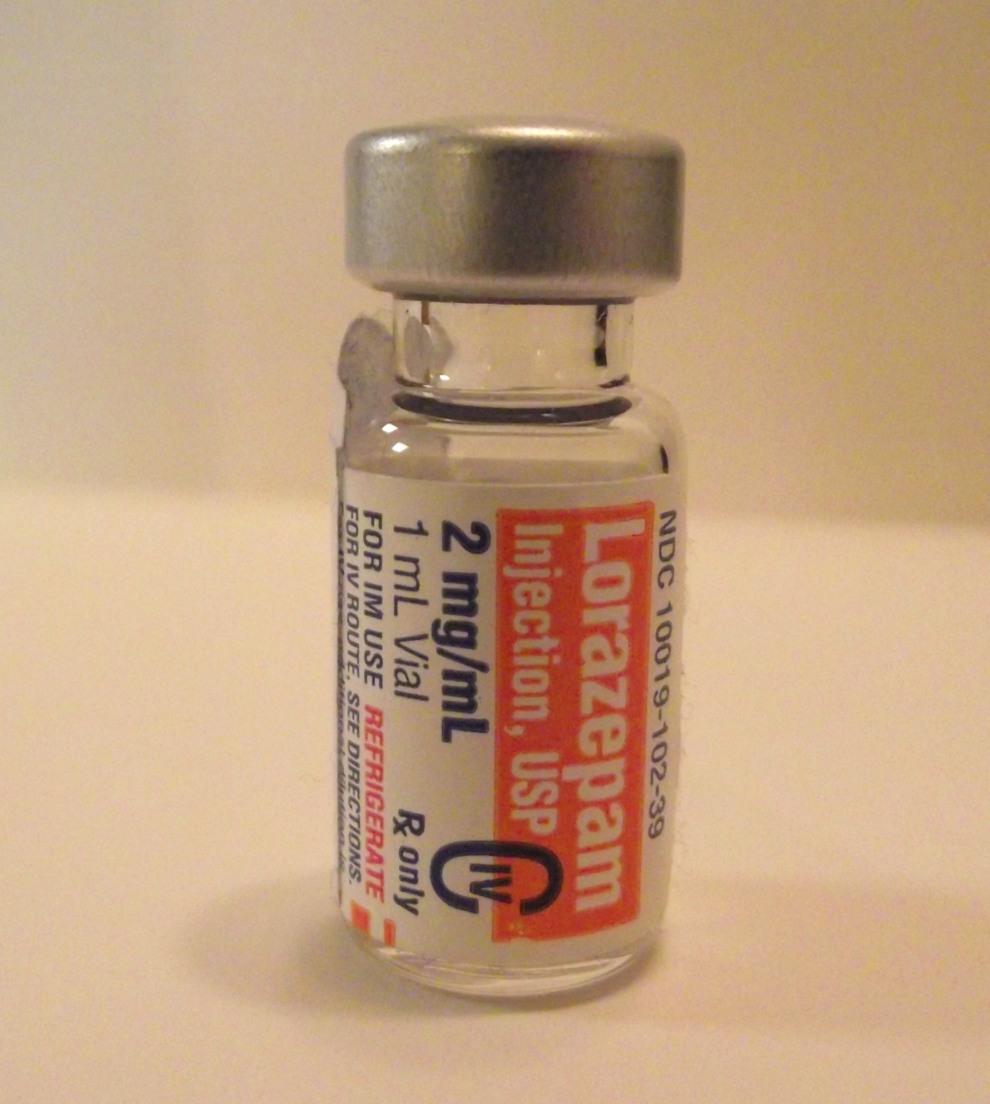 Empty vial, lorazepam (Ativan) 2mg/mL. United States.